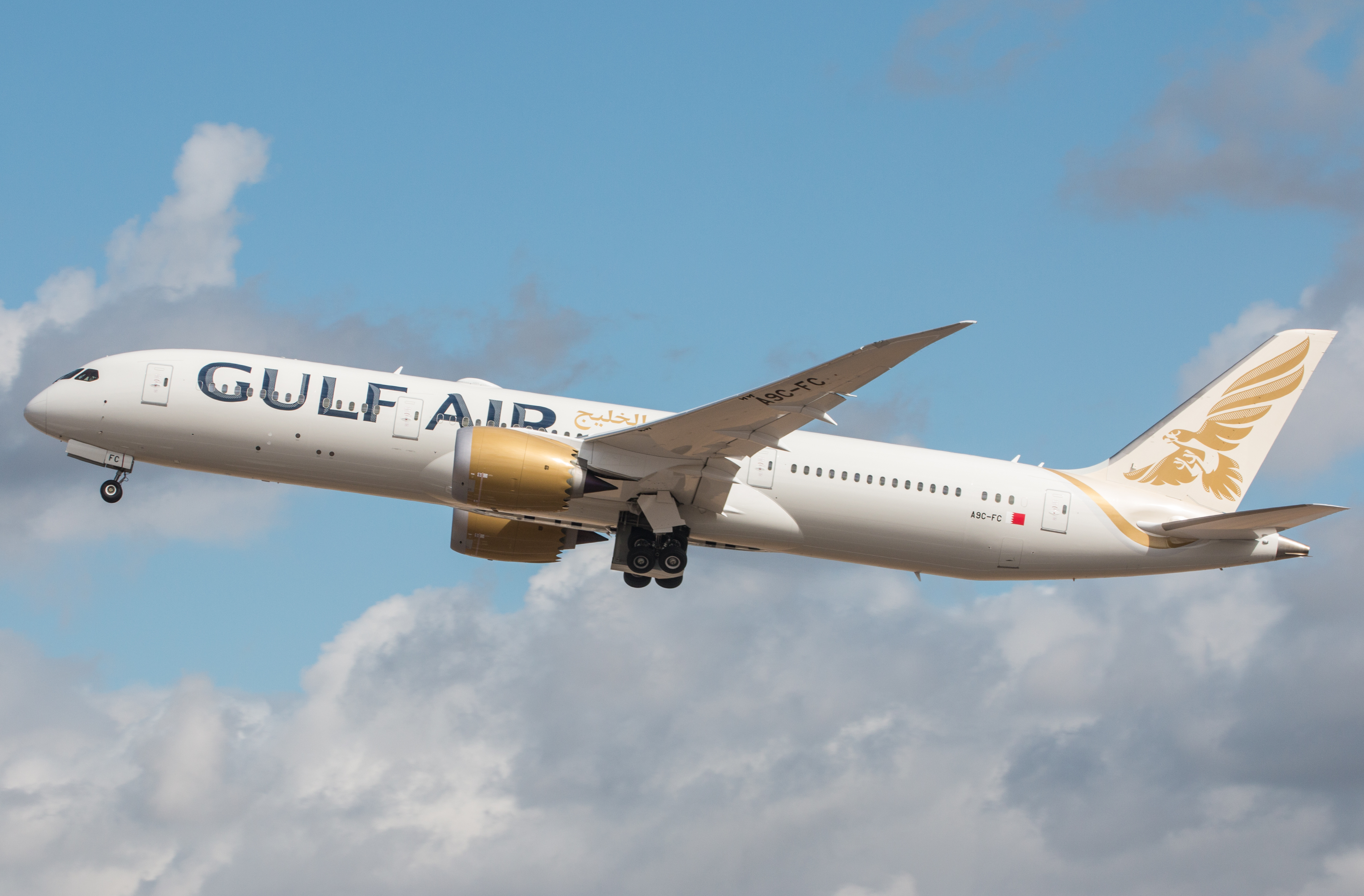 Heathrow Airport, London